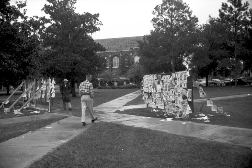 A historic photo of Plaza of the Americas